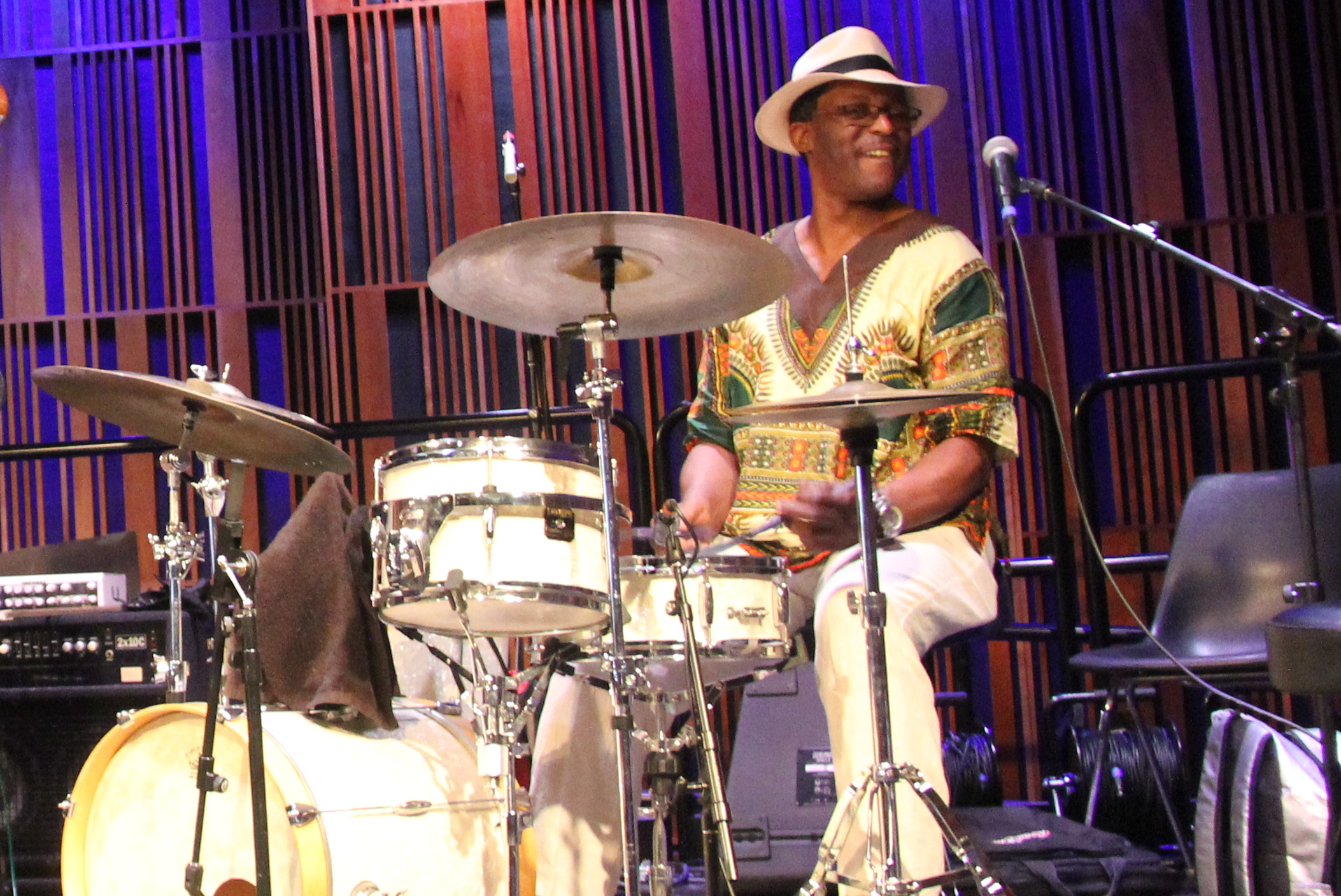 Herlin Riley plays with the Down On Their Luck Orchestra at the New Orleans Jazz Museum on Thursday, 18 July 2019 in New Orleans, LA.